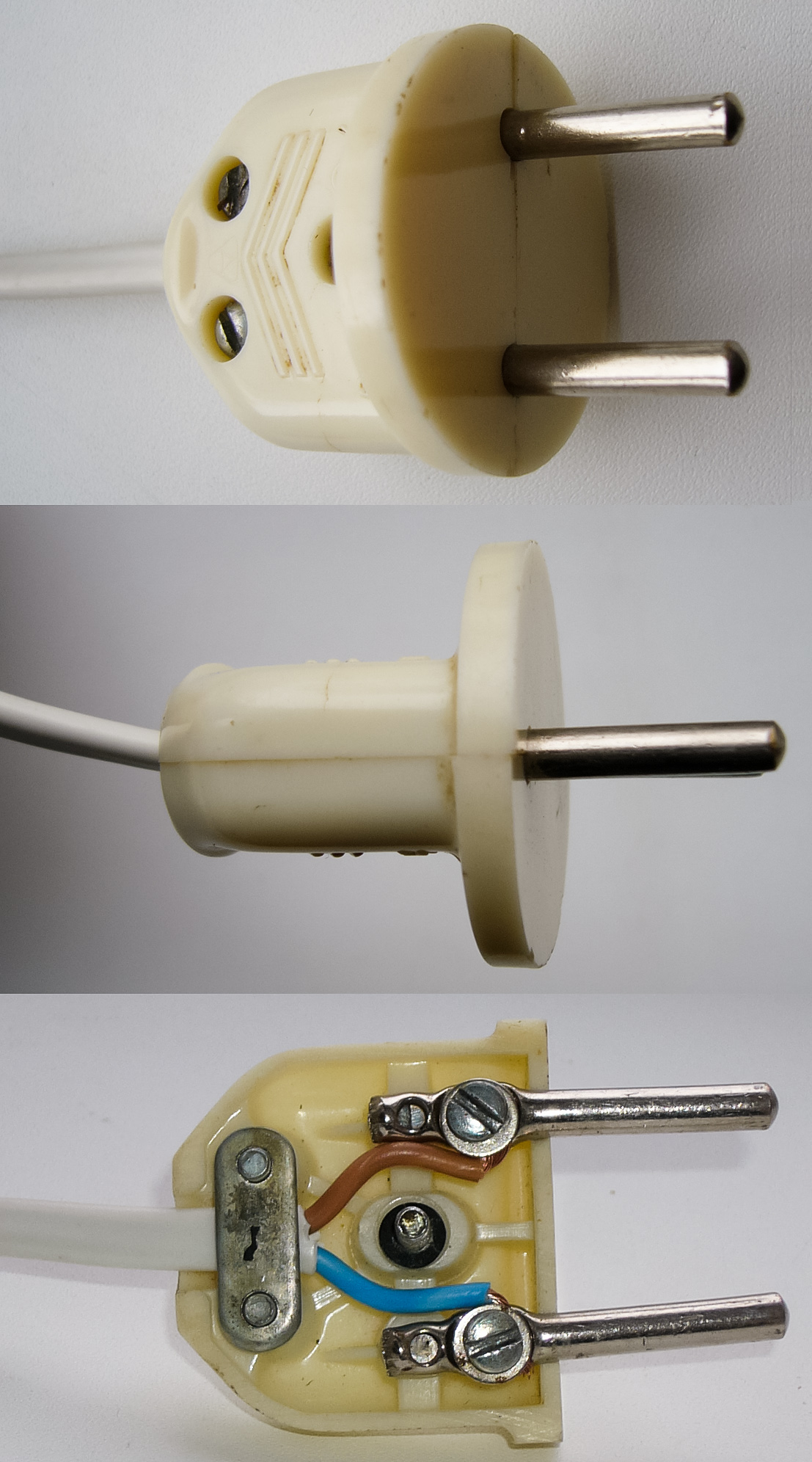 Soviet domestic power plug 6A 250V AC, unpolarised, unearthed